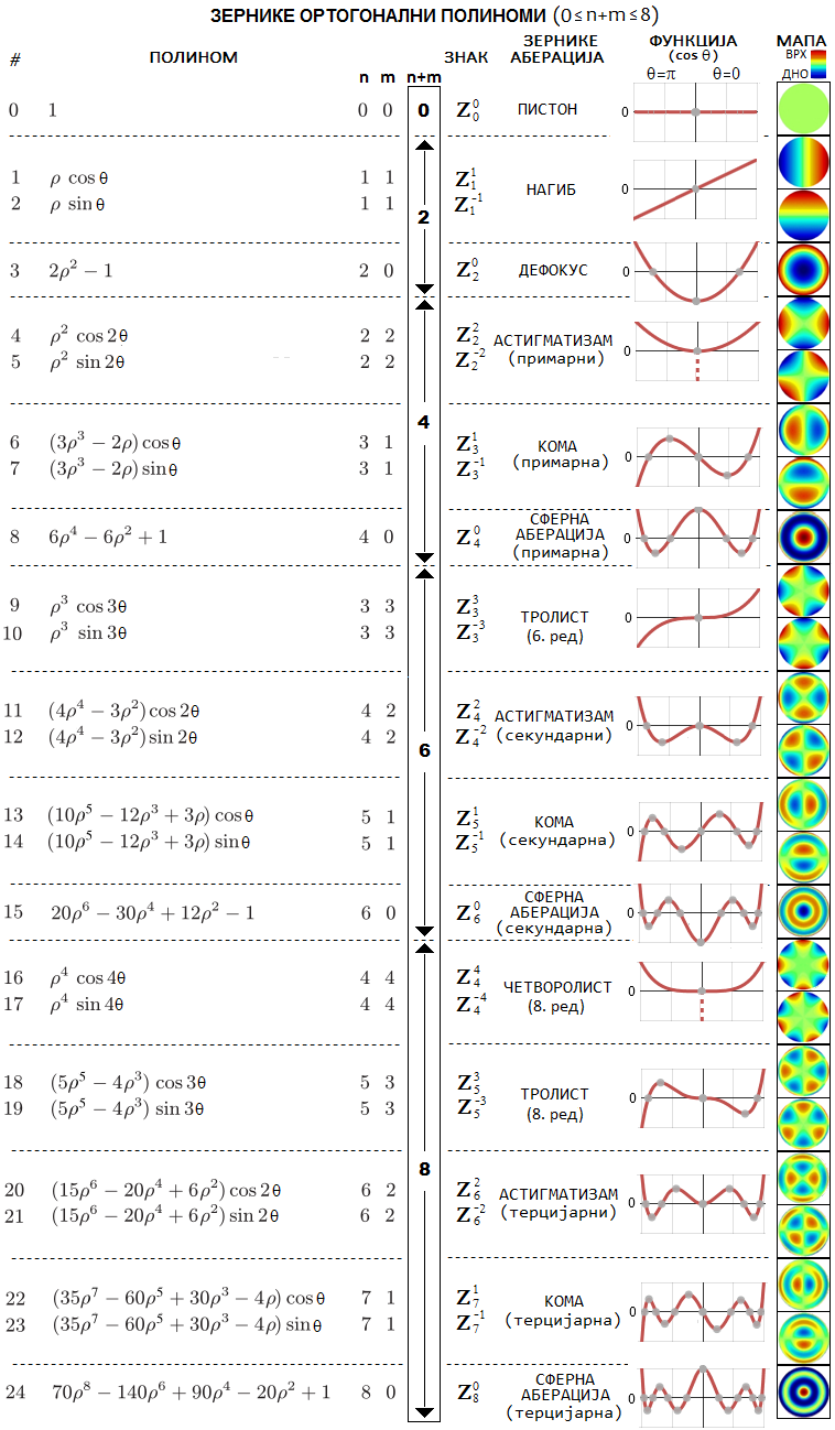 ЗЕРНИКЕ ОРТОГОНАЛНИ ПОЛИНОМИ